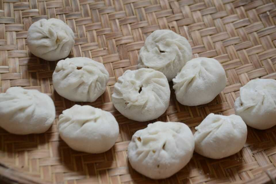 Dough into ball